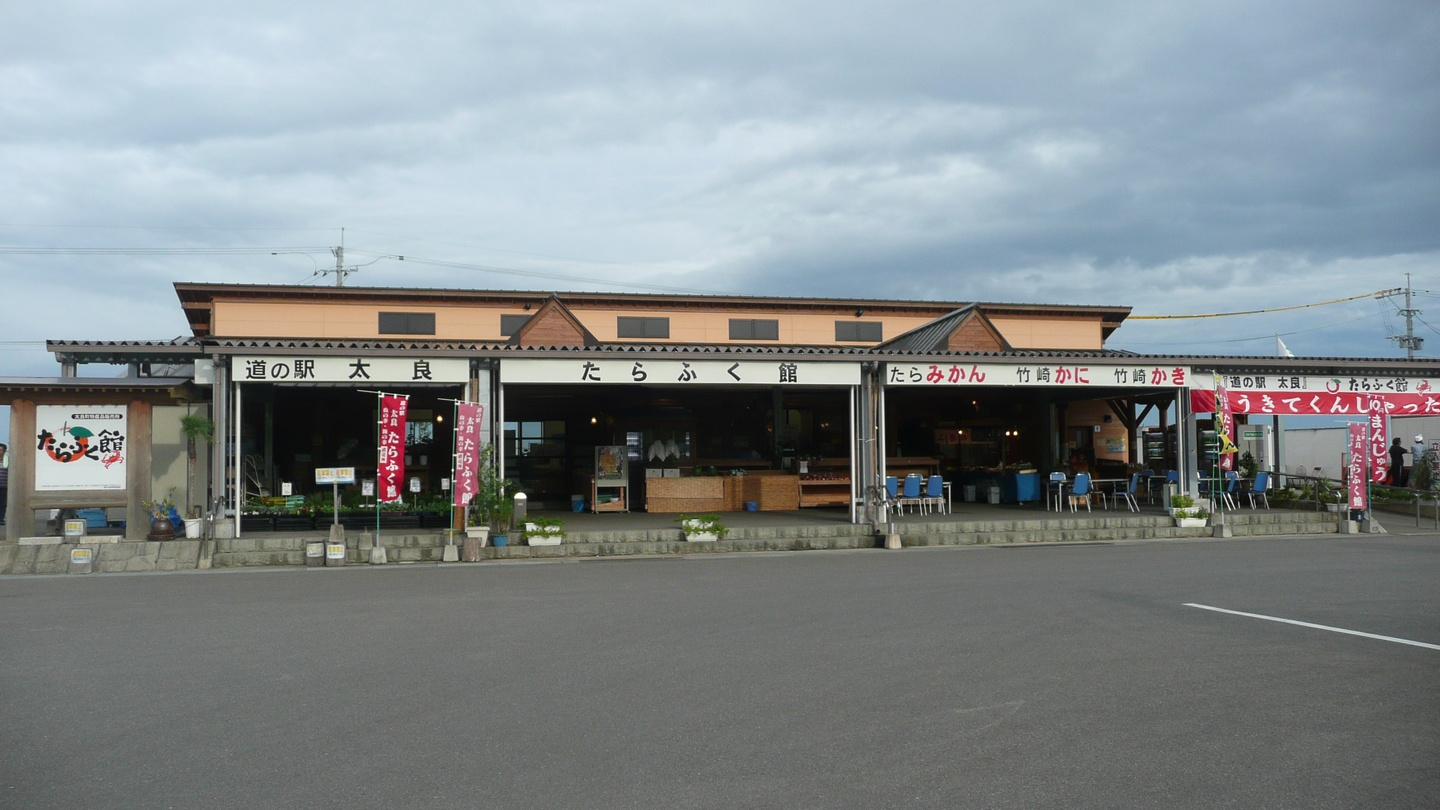 Michinoeki Tara (Tara Town, Saga, Japan)